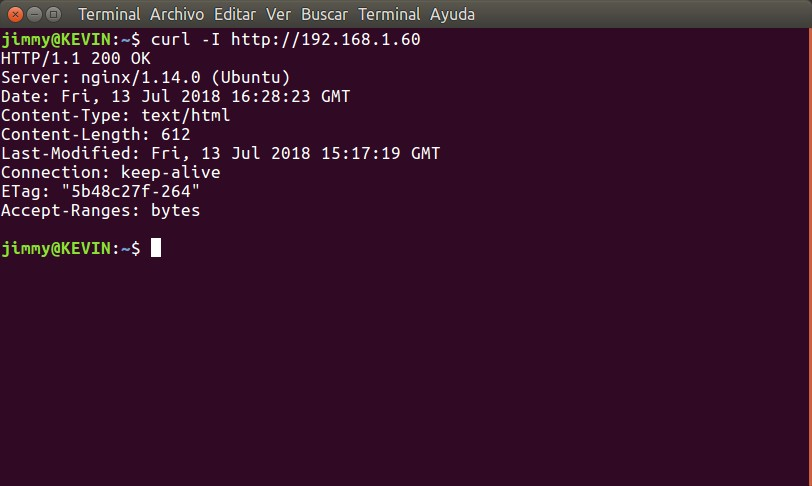 HTTP header returned by nginx with curl executed from Ubuntu